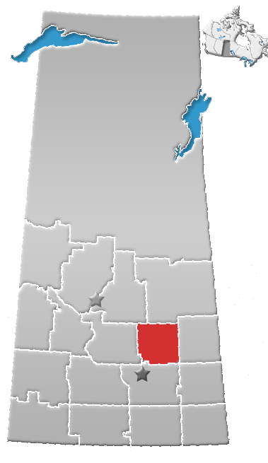 Saskatchewan census area No. 10